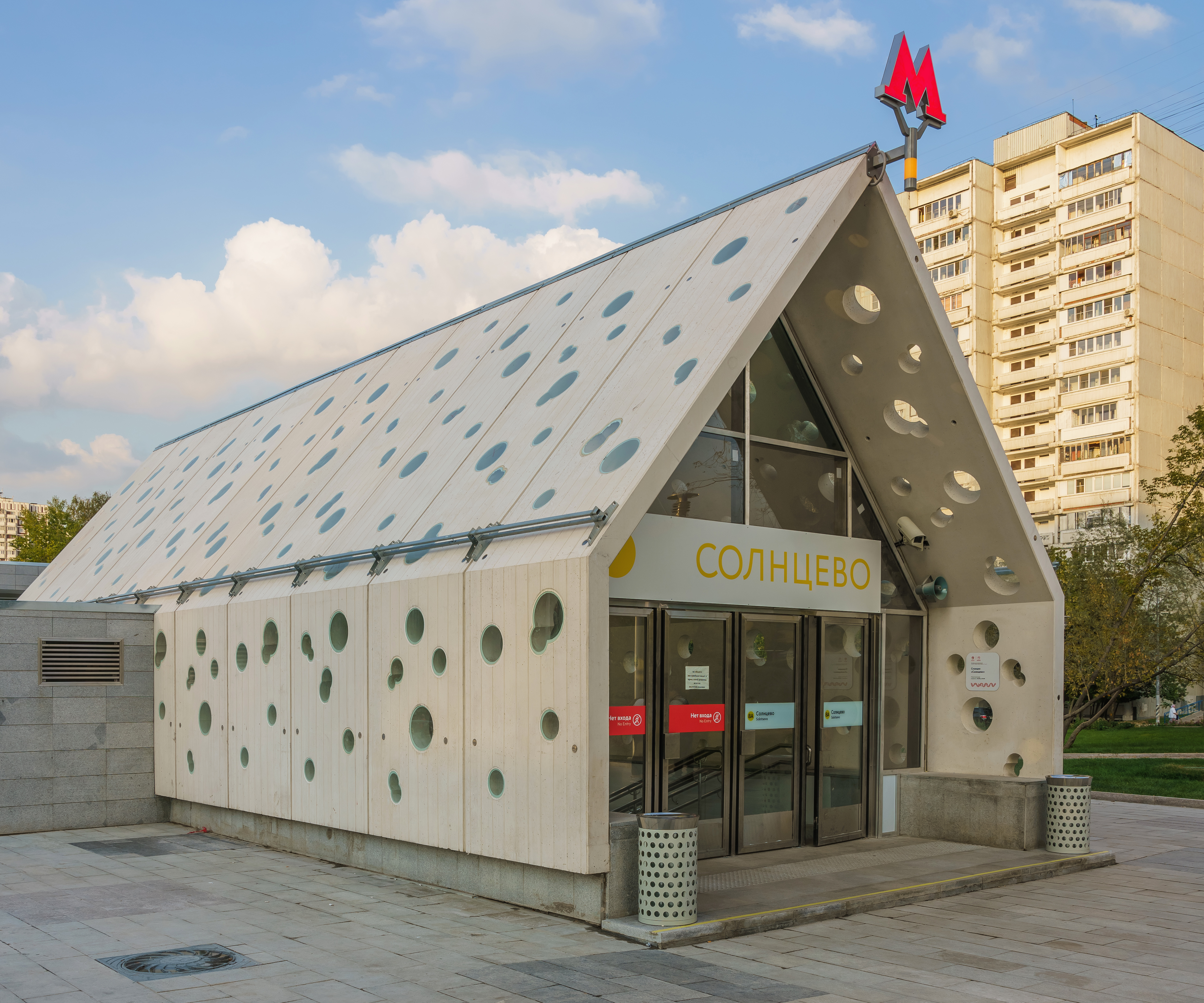 One of entrance pavilions of Solntsevo metro station in Moscow, Russia